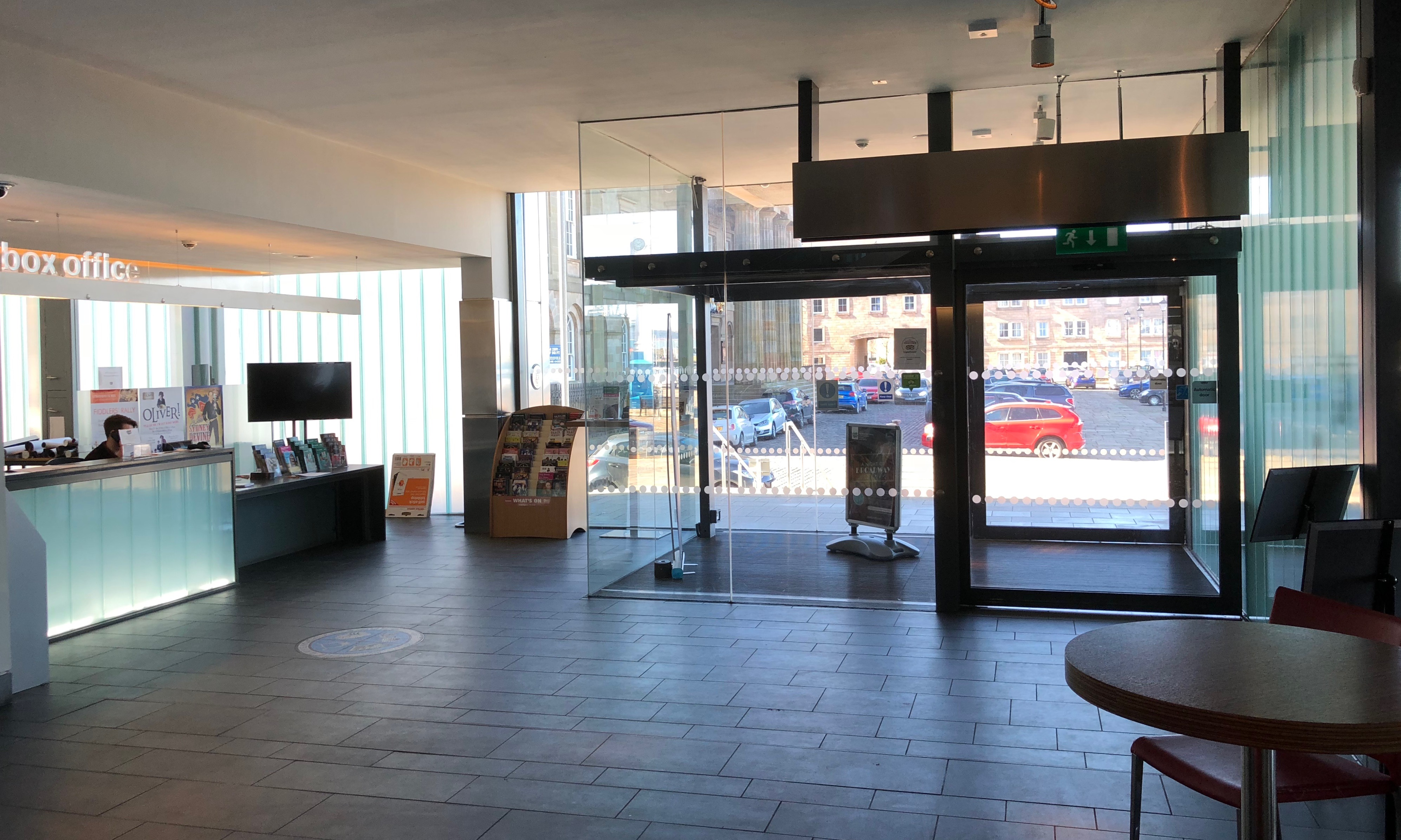 Foyer entrance and box office of the Beacon Arts Centre, looking out onto Customhouse Quay on the waterfront of Greenock in Scotland.